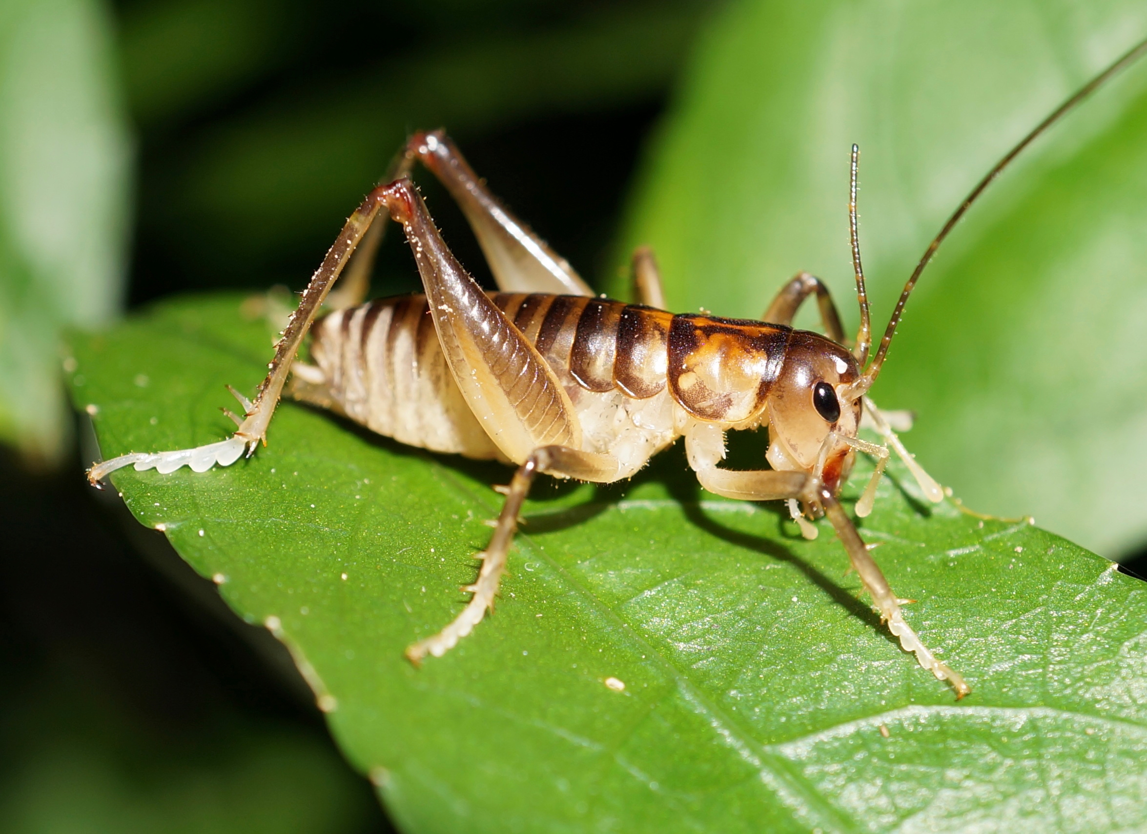 Male Hemiandrus pallitarsis ground wētā (Anostostomatidae), at night on shrub leaf.